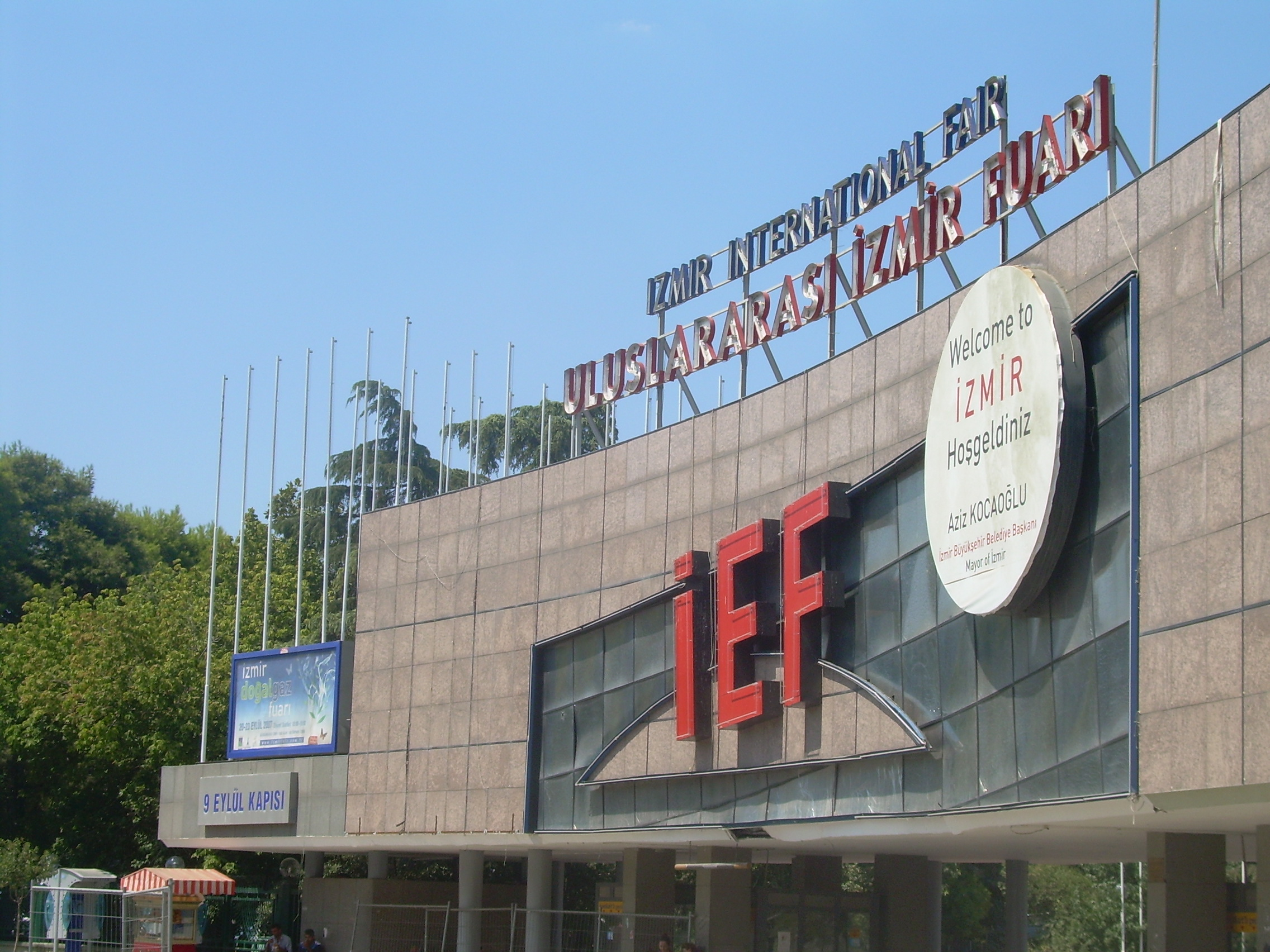 İzmir Kültürpark 9 Eylül gate